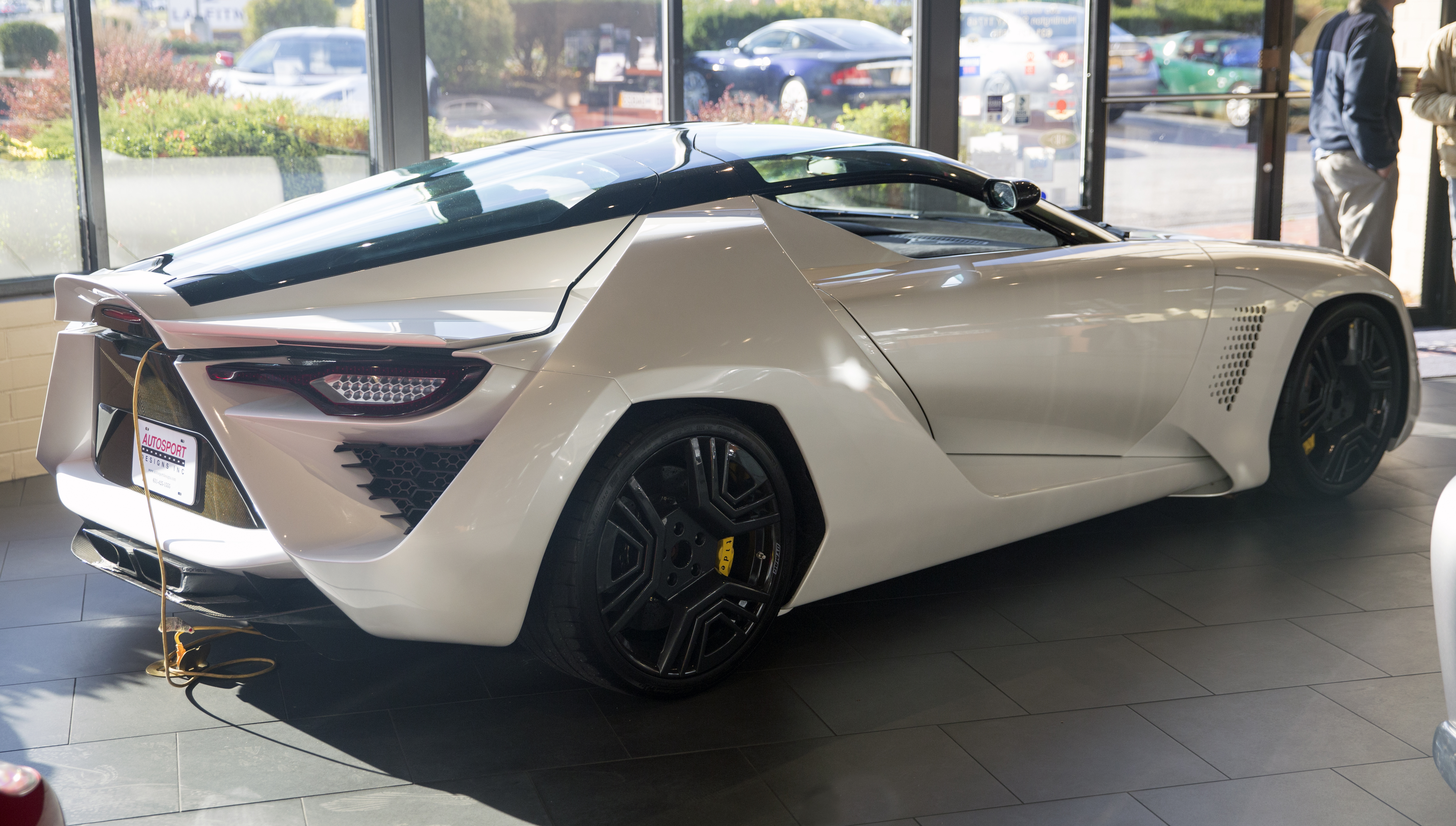 The 2009 Bertone Mantide, offered for sale by Autosport Designs in Huntington Station, NY. It was repainted "Bianco Fuji" in 2009, subsequent to having been shown at Goodwood and Pebble Beach.